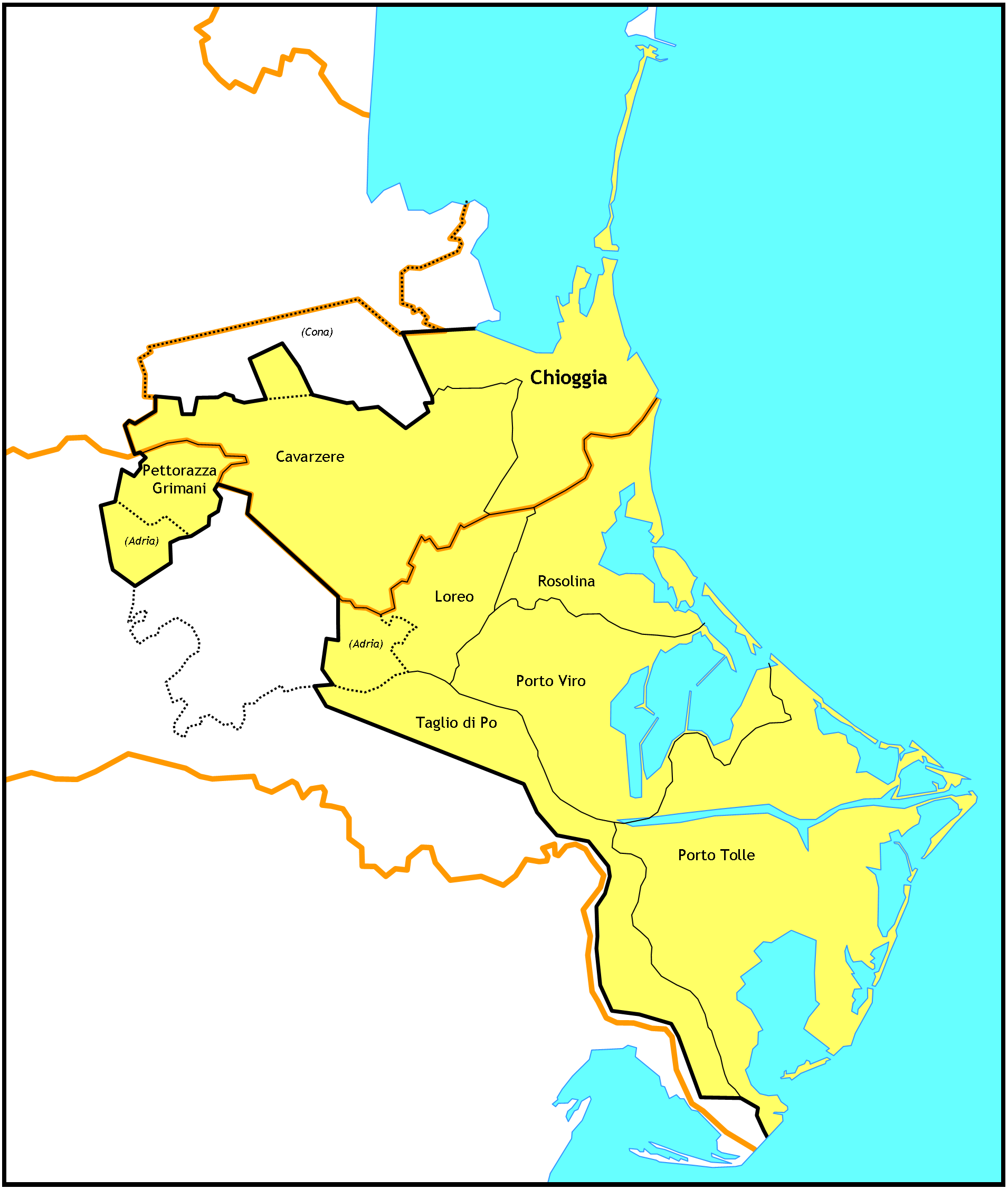 Map of Chioggia's Diocese